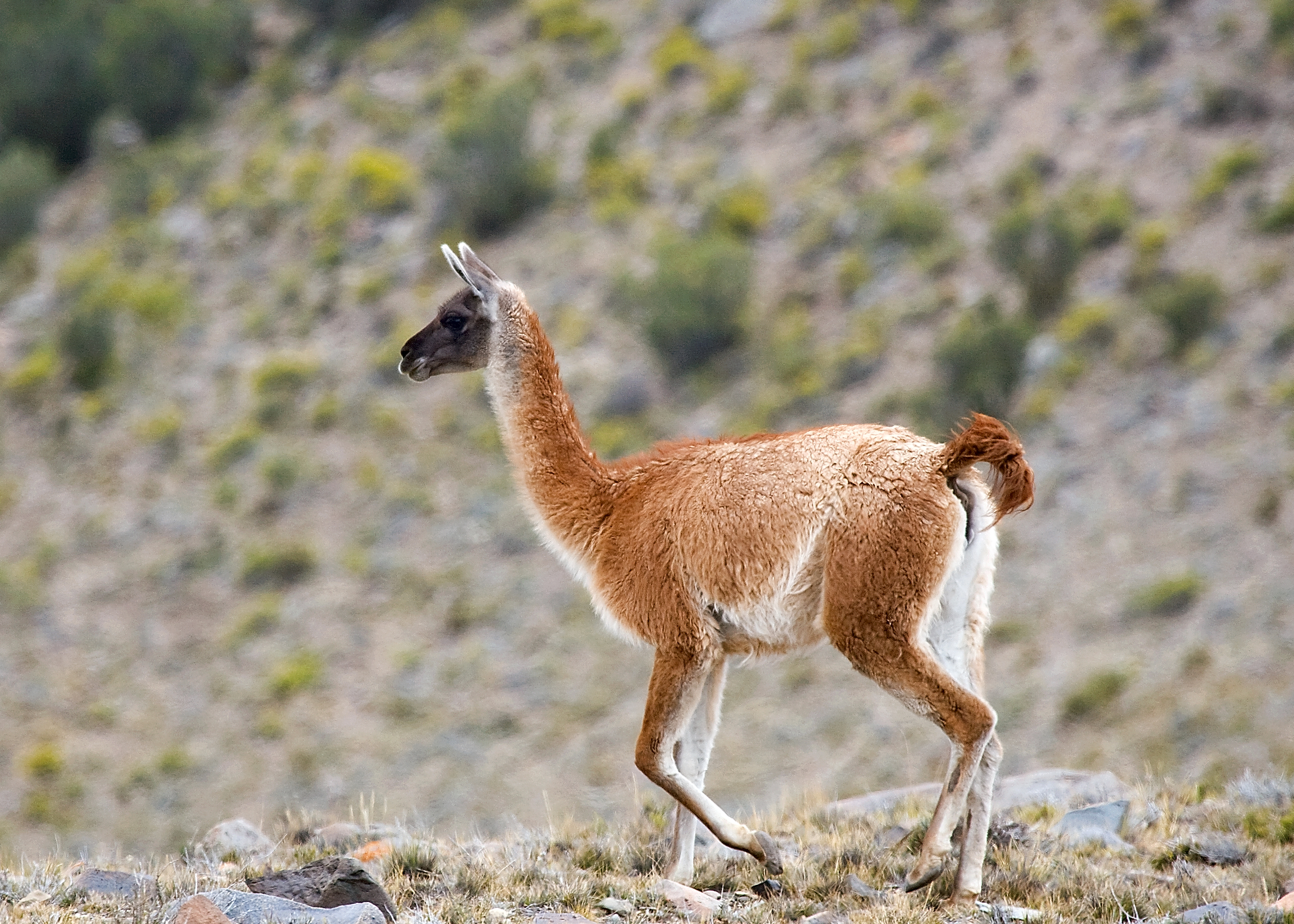 A Guanaco